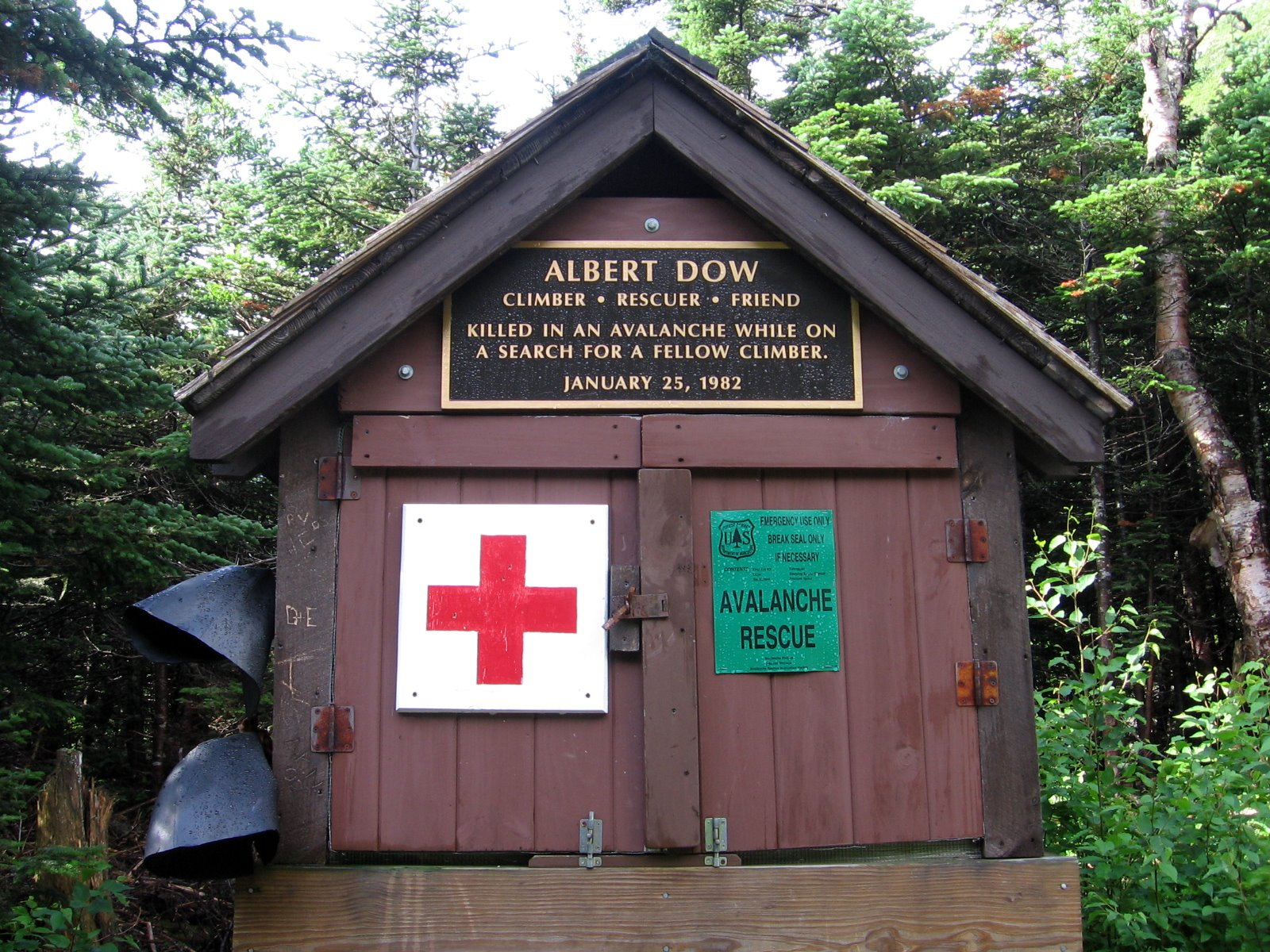 First Aid cache on Mt Washington. New Hampshire. Appalachian Trail.